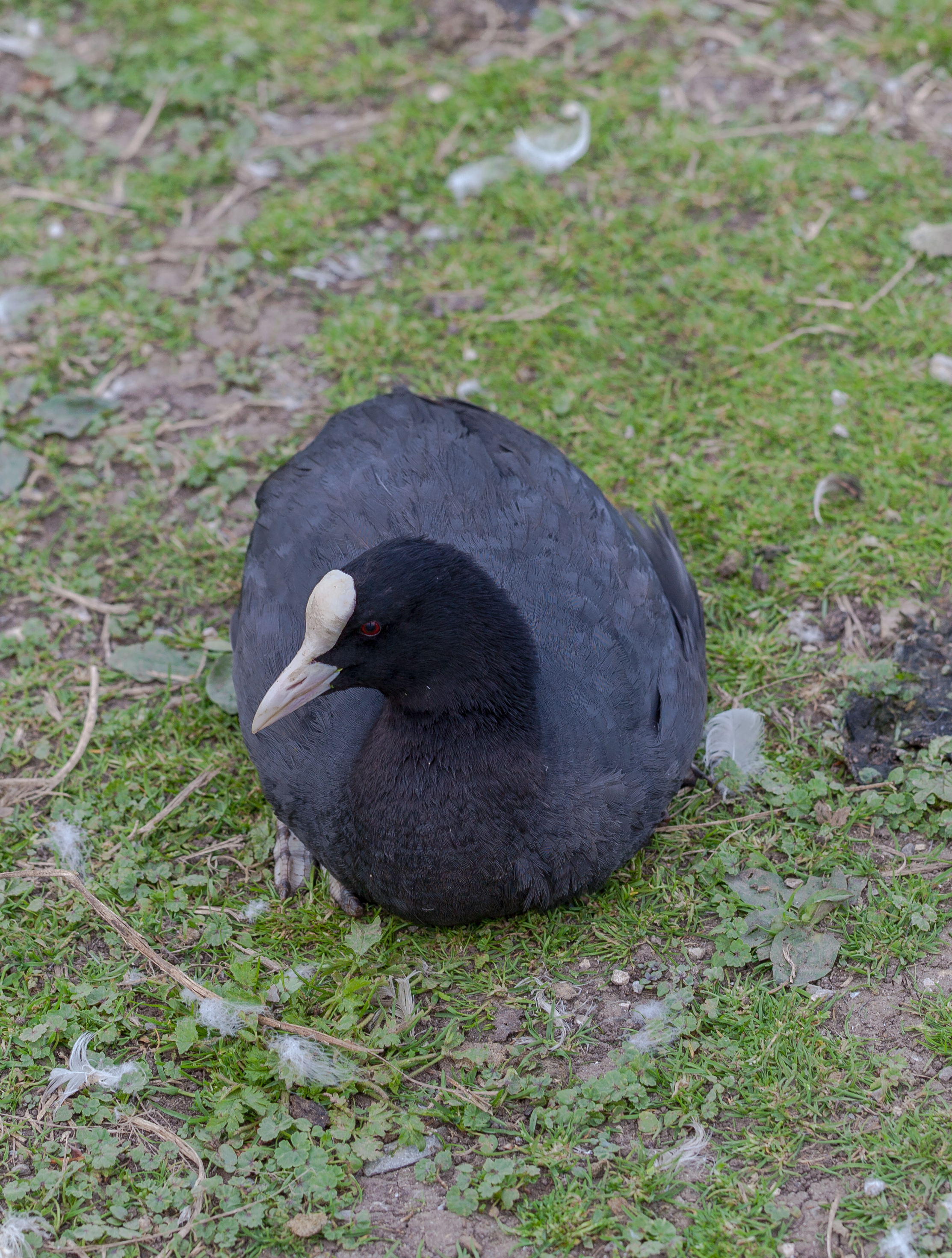 Eurasian Coot (Fulica atra) at the Nymphenburg Palace, Munich, Germany